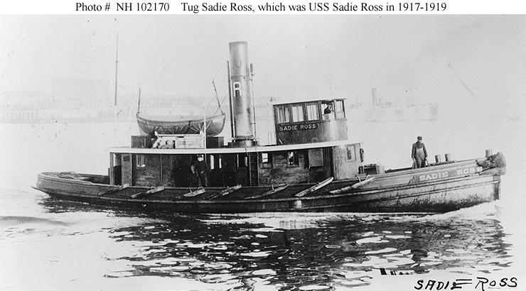 The commercial tug Sadie Ross prior to her United States Navy service as the patrol vessel